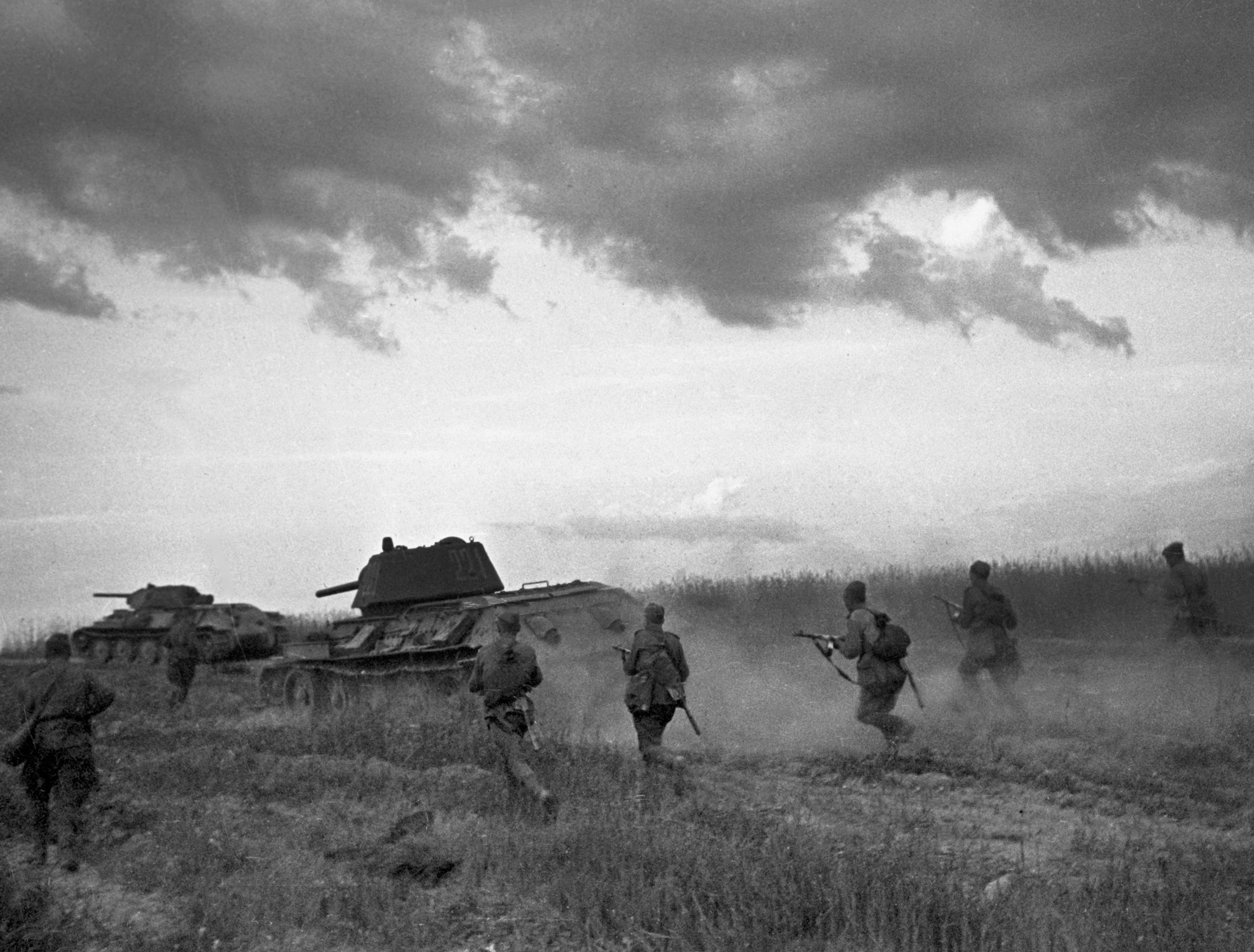 “Red Army men on the offensive near Bryansk”. Red Army tanks of the 10th Guards Tank Brigade and skirmish line on the offensive near the Karachev area near Bryansk. The Great Patriotic War. Bryansk Offensive Operation, 16 September 1943. [See also #618727]